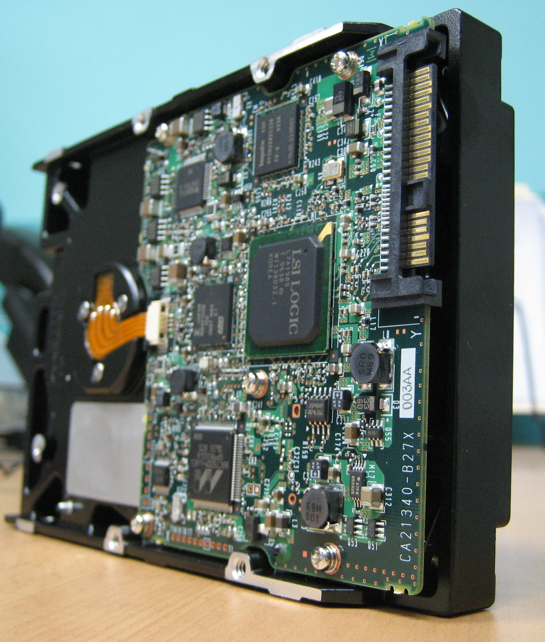 This is a 73 Gigabyte 15,000 RPM SAS (Serial Attached SCSI) Drive by Fujitsu. It is a 3.5 inch drive and has an 8MB Buffer.